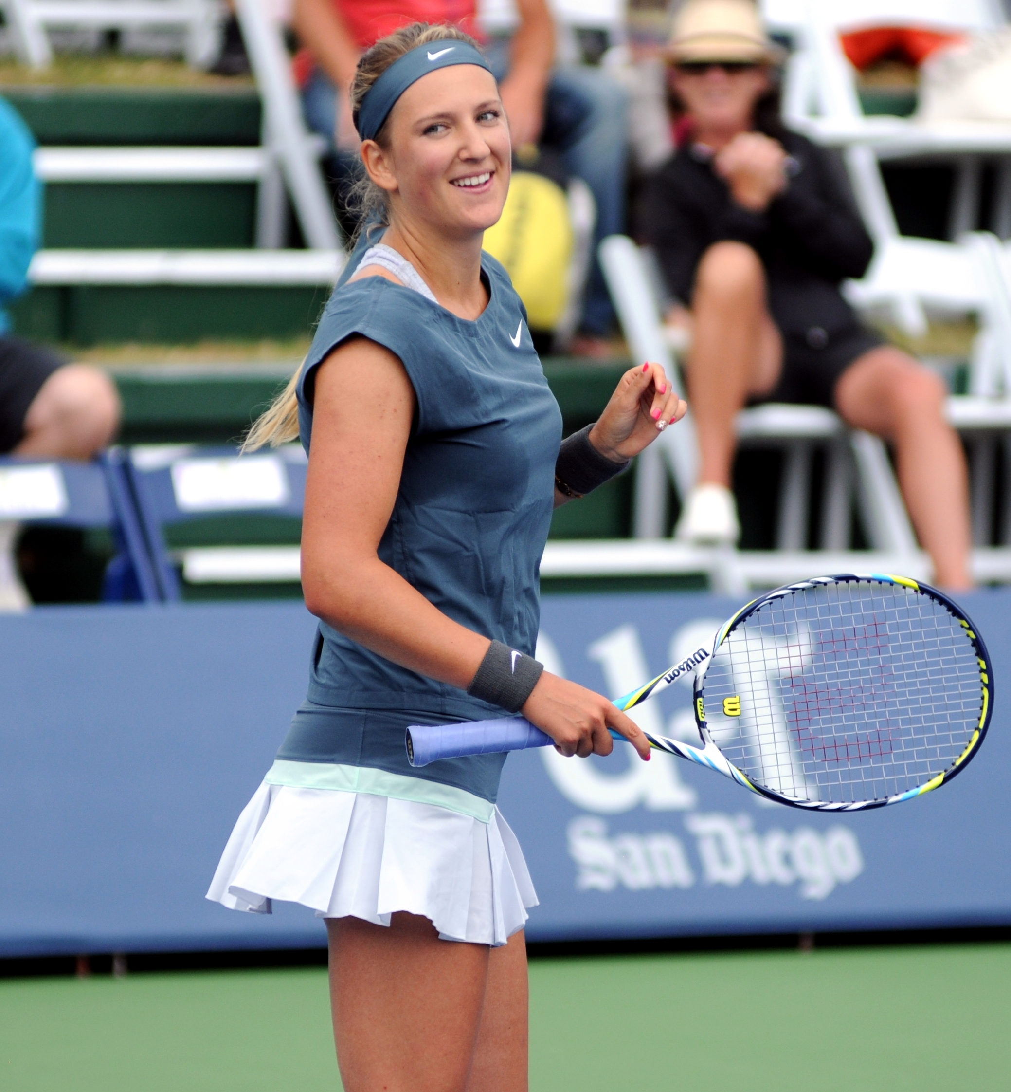 Victoria Azarenka - - 2nd Round 2013 Southern California Open